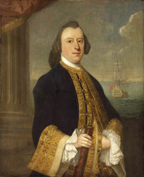 Portrait of Georgia Royal Governor John Reynolds